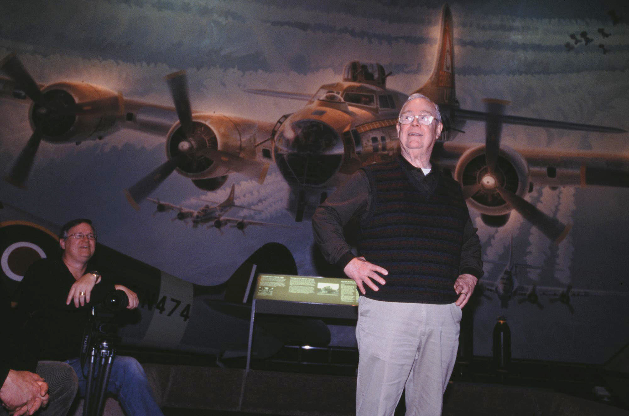 In this 2005 photo, Keith Ferris stands before his mural “Fortresses Under Fire” at the National Air and Space Museum in Washington, D.C.